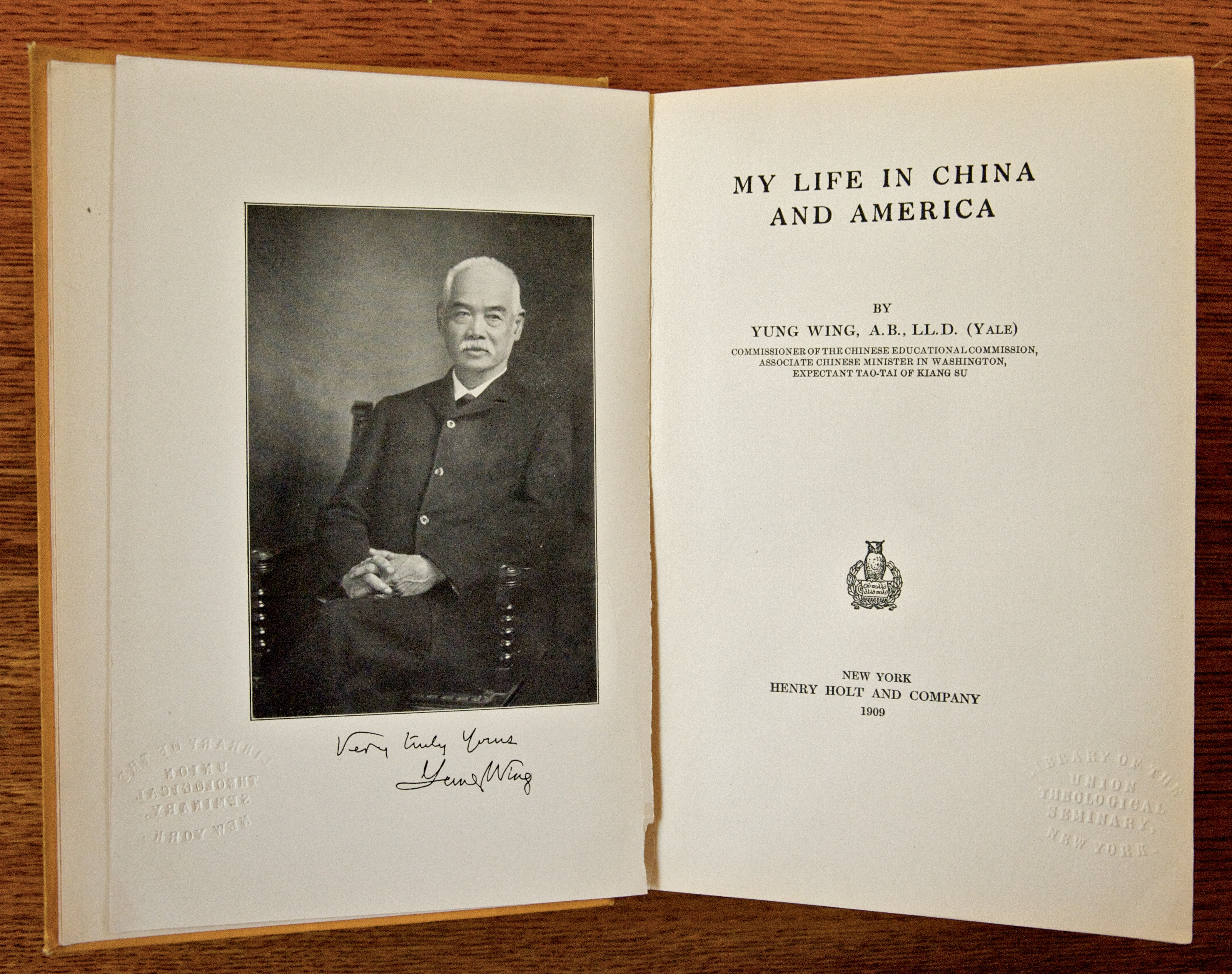 Portrait of Yung Wing used as frontispiece, next to the title page of his 1909 book, My Life in China and America, as found in the library of the Union Theological Seminary (Columbia).